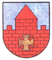 Coat of arms of Krustpils, Latvia